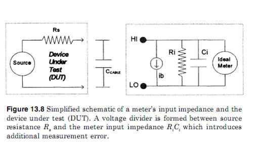 Simplified schematic of a meter's input impedance and the device under test